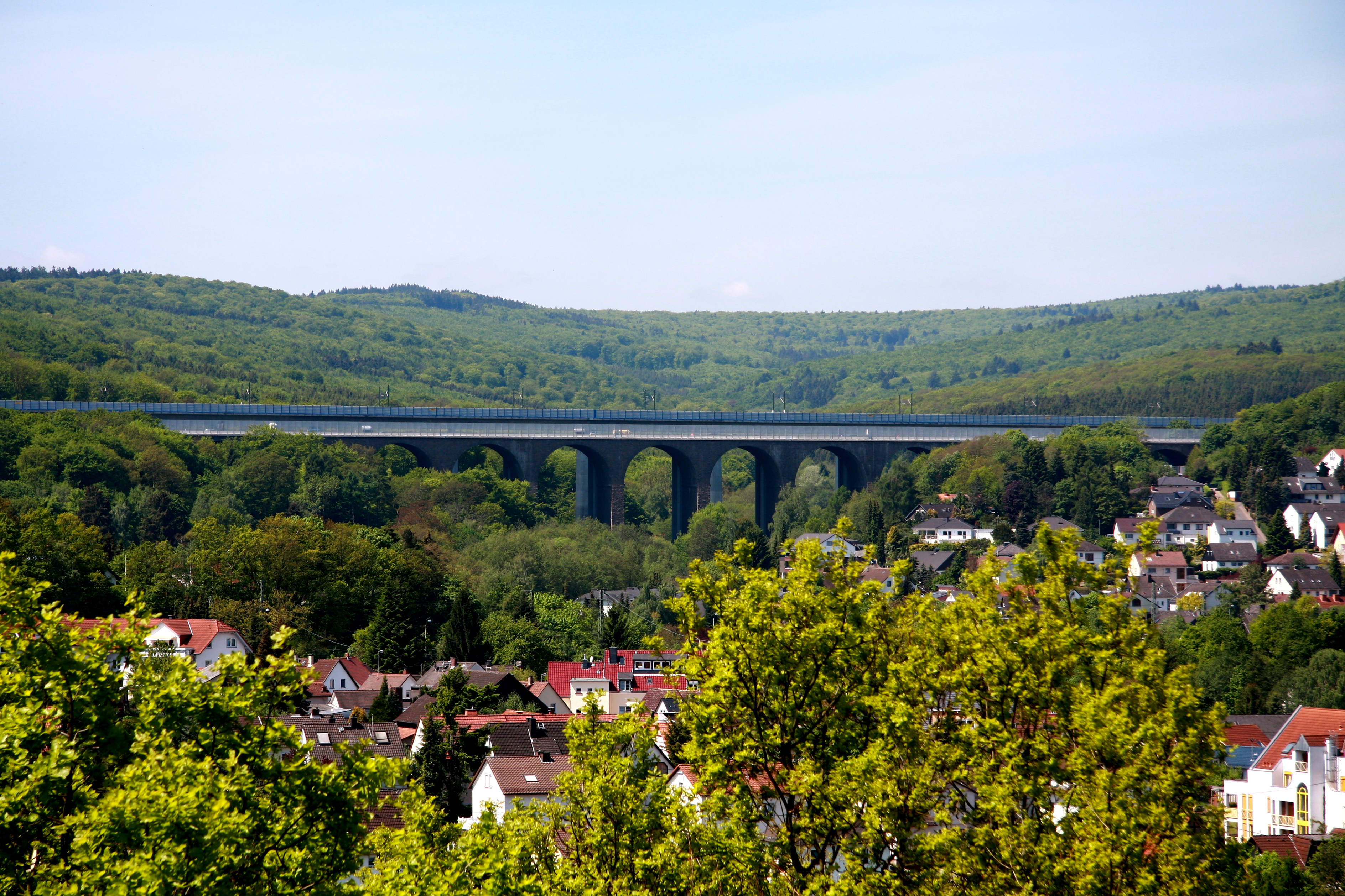 The Theiß valley brigde near Niedernhausen